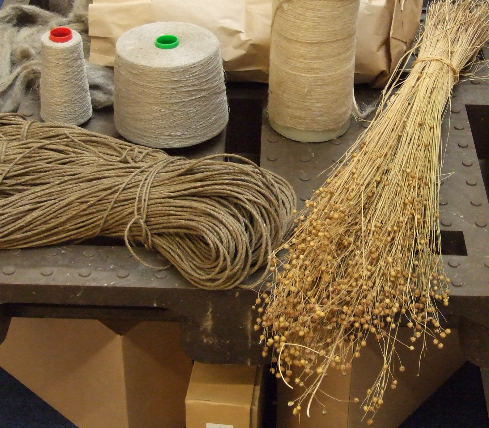 Use of flax for fibre/ linnen: flax straw, yarn and rope